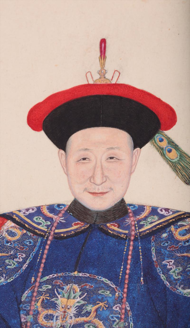 Fuk'anggan